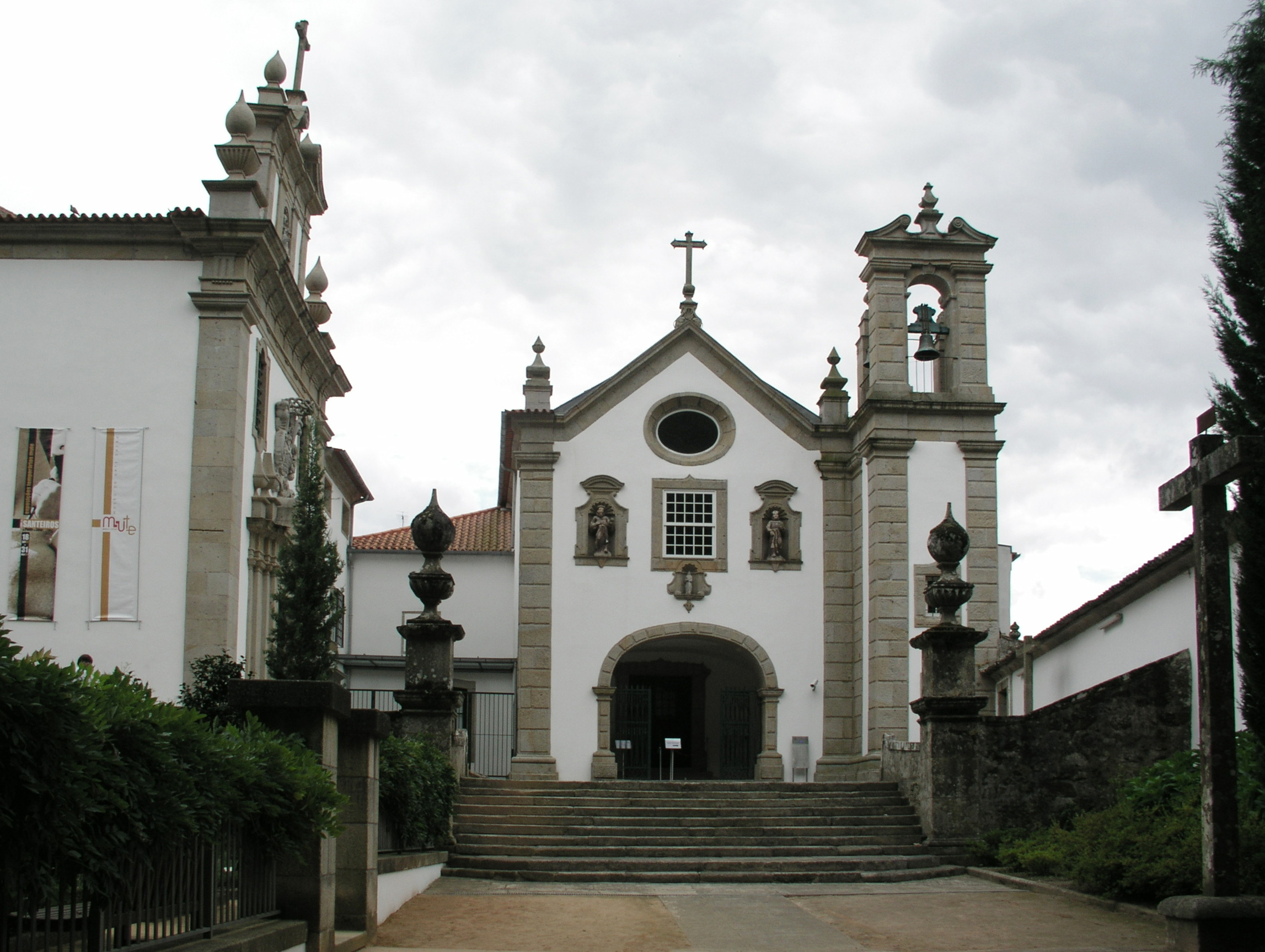 Ponte de Lima: Museo dos Terceiros/ Church of the third order of St Francis.